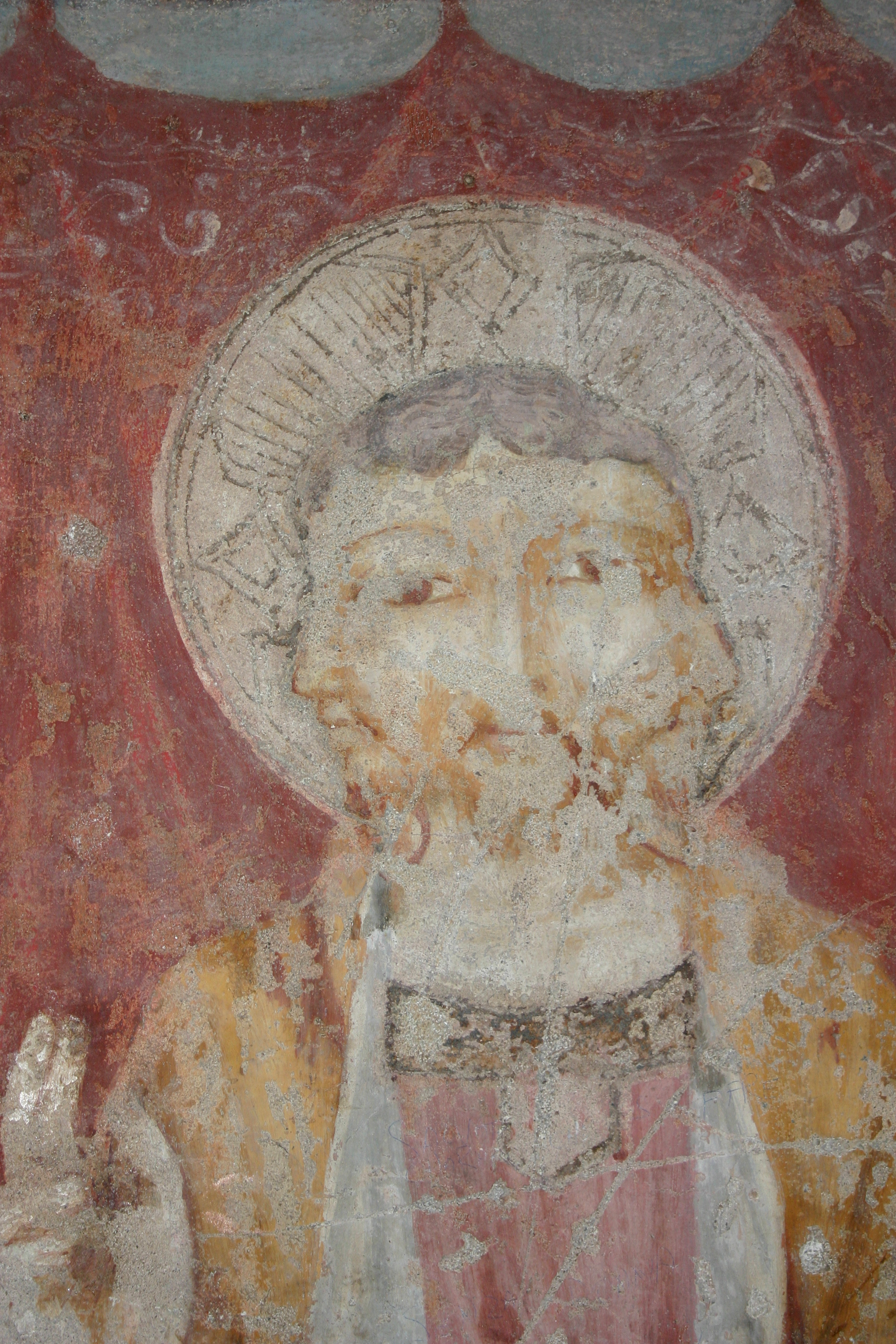 Allegory of the Holy Trinity, painted as three faces fused in one, in a medieval fresco in Perugia. Picture by Giovanni Dall'Orto, August 5, 2006.